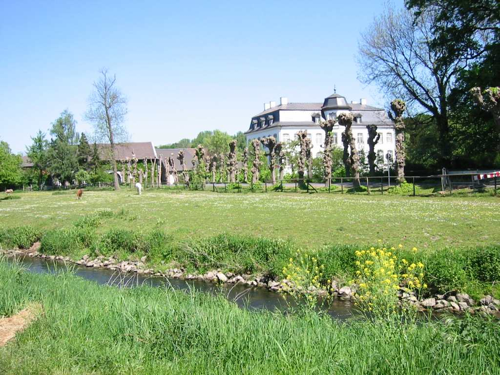 Zweibrücken Castle in Wurm valley.